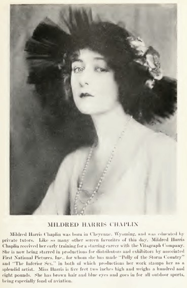 Actress Mildred Harris from Who's Who on the Screen, published by Ross Publishing Co., 1920 [1]